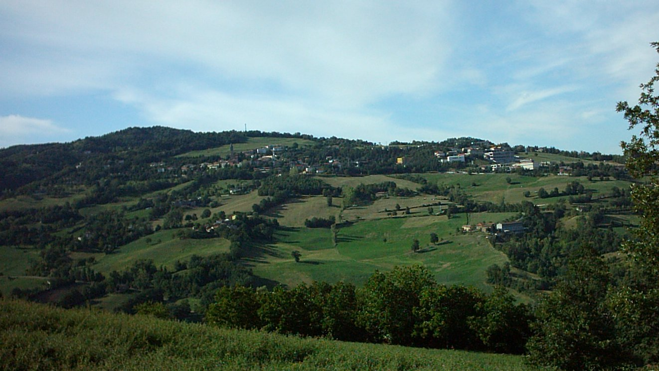 Polinago (Province of Modena, Italy) landscape